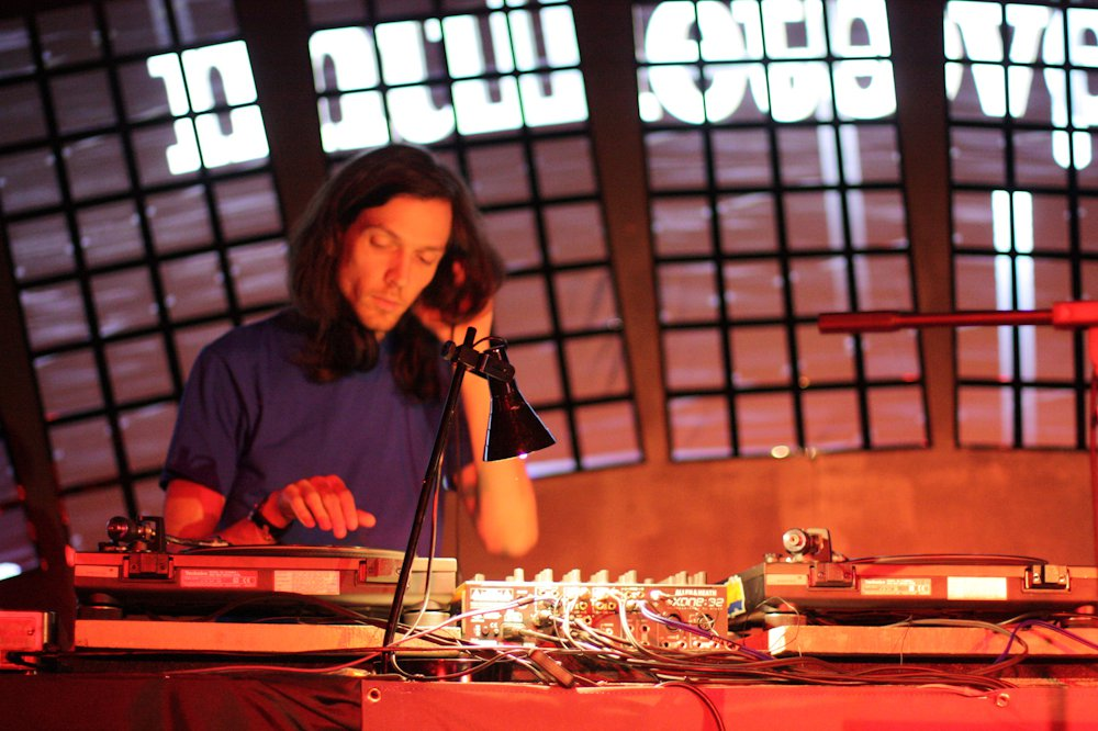 DMX Krew alias Ed "DMX" Upton performing at ShareConference 2012.